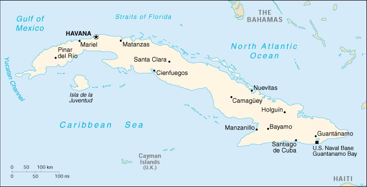 Map of Cuba